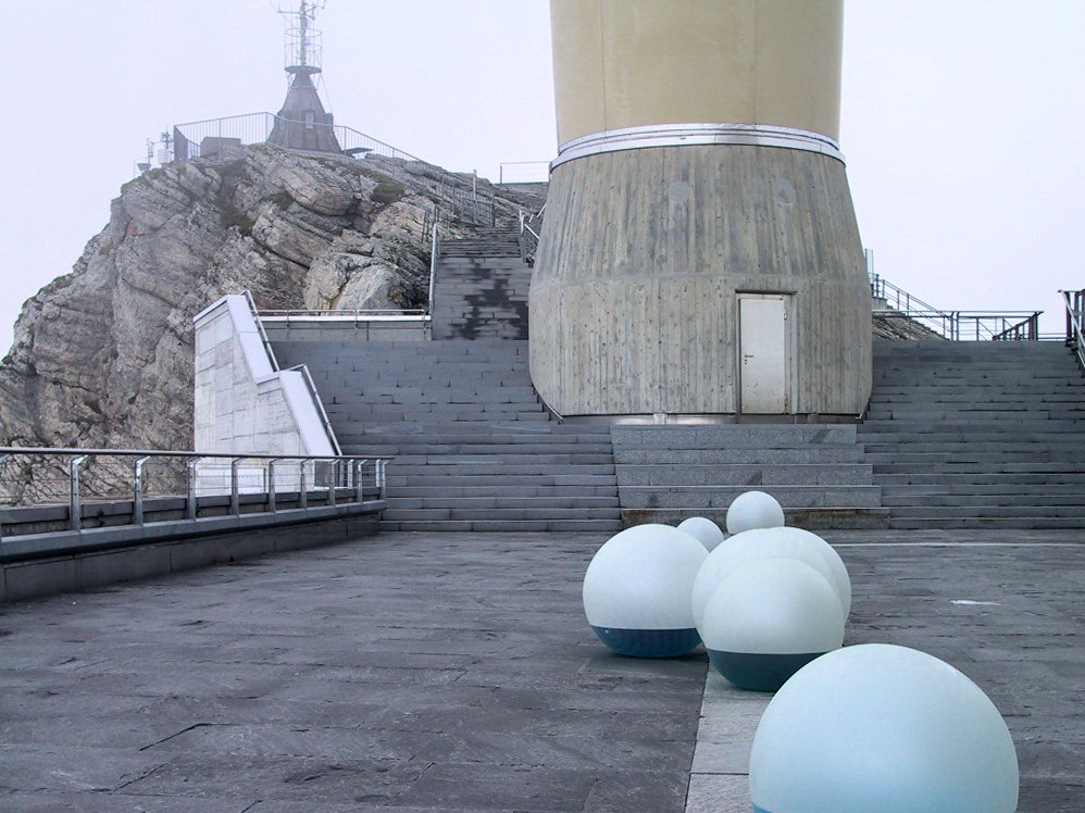 Schwägalp : Säntis Radio tower.